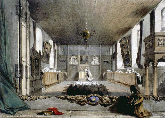 The Private Chapel of the Ursuline Convent, Quebec